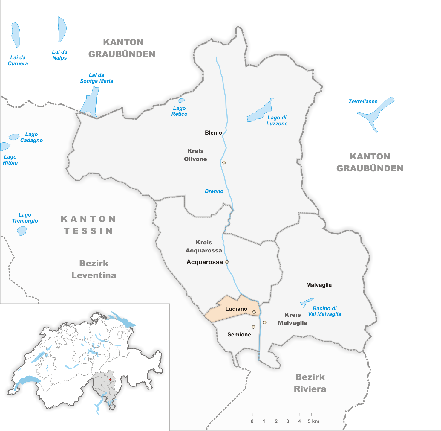 Municipality Ludiano